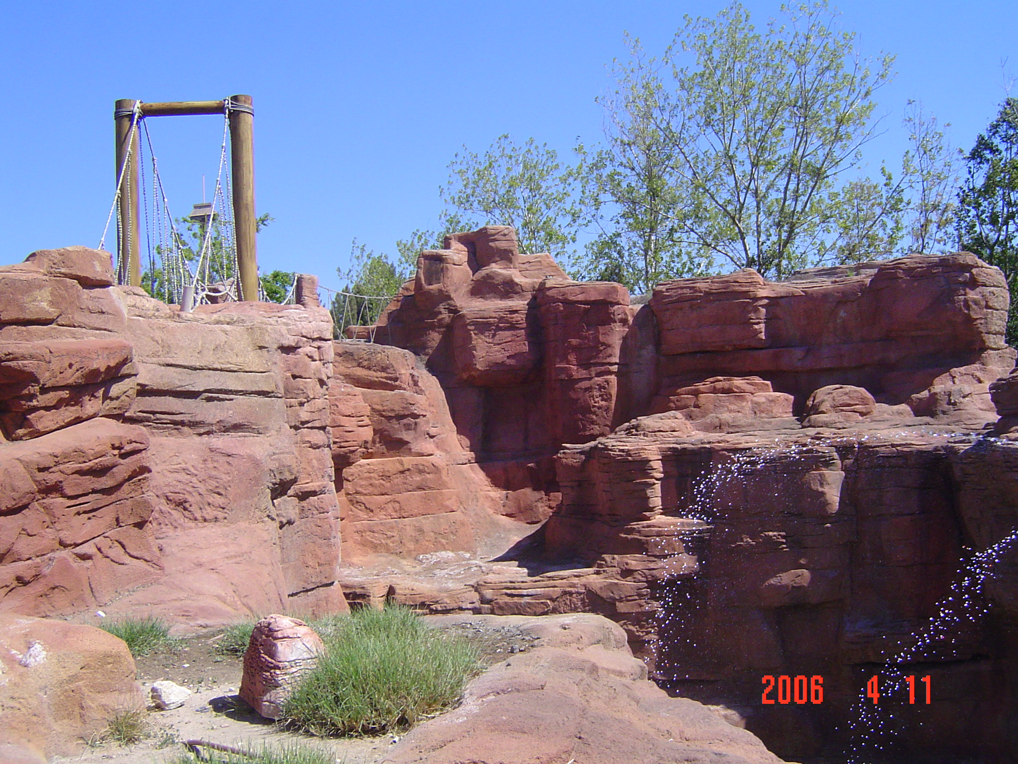 Picture of the Far West are in Port Aventura Park (Salou, Spain)